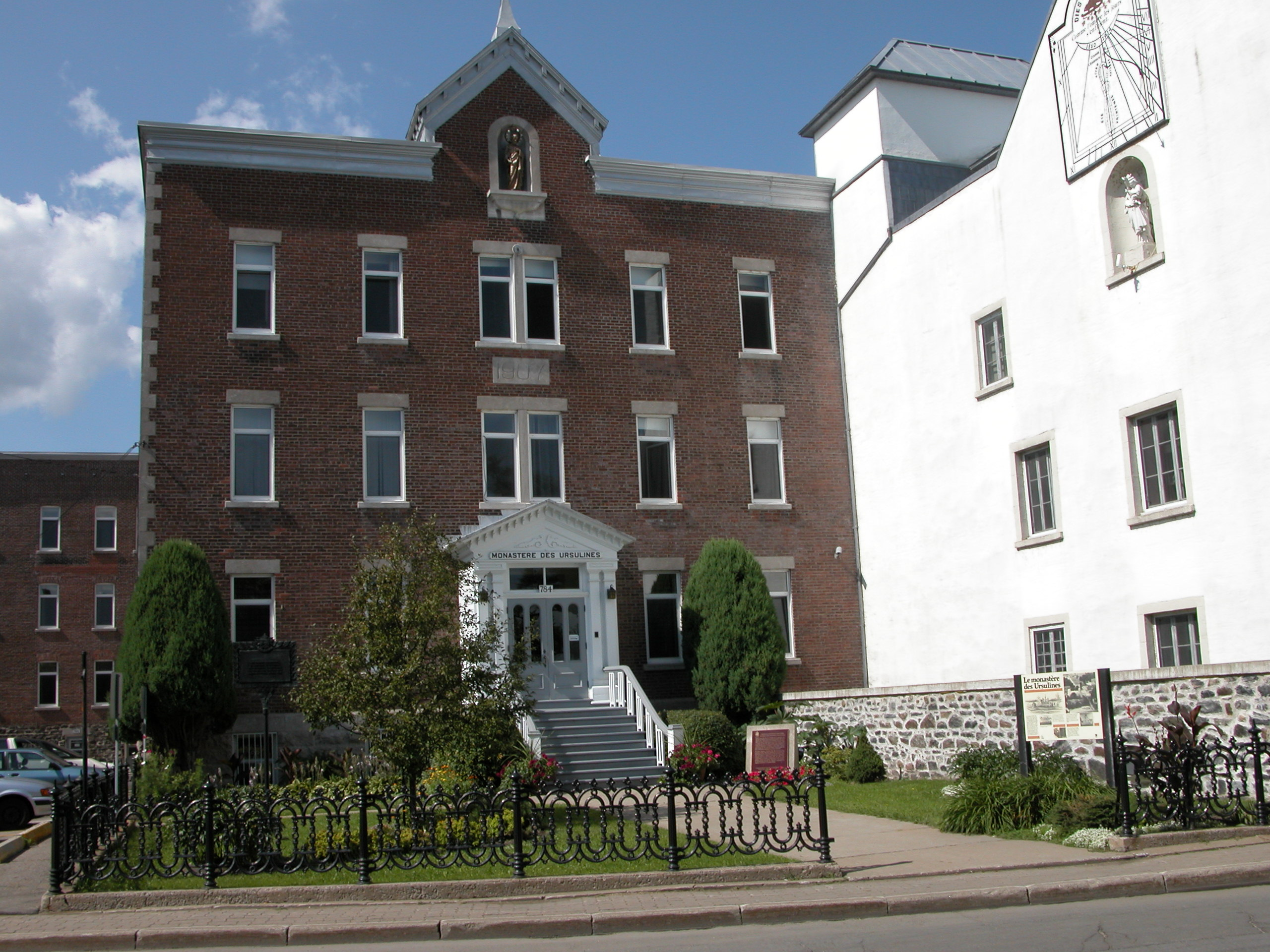 Ursulines monastery at Trois-Rivières, Quebec